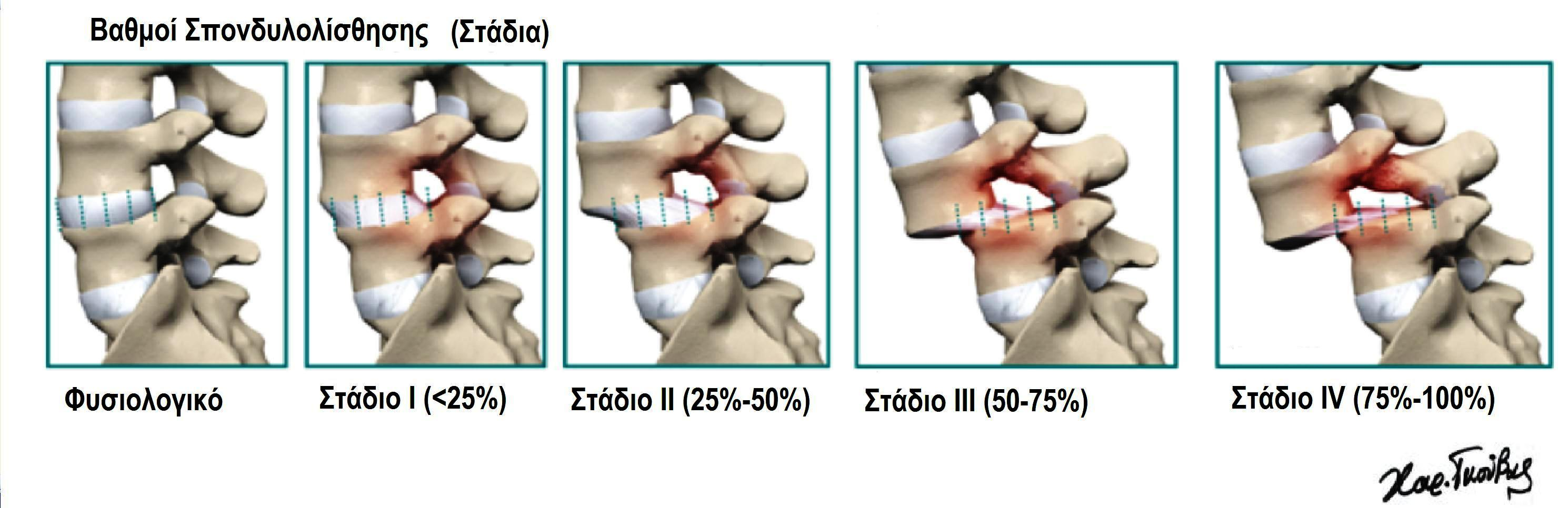 Spondylolisthesis stages